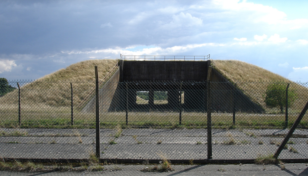 The front of one of the missile silos. That's reinforced concrete, steel plating and tons of sand and soil.